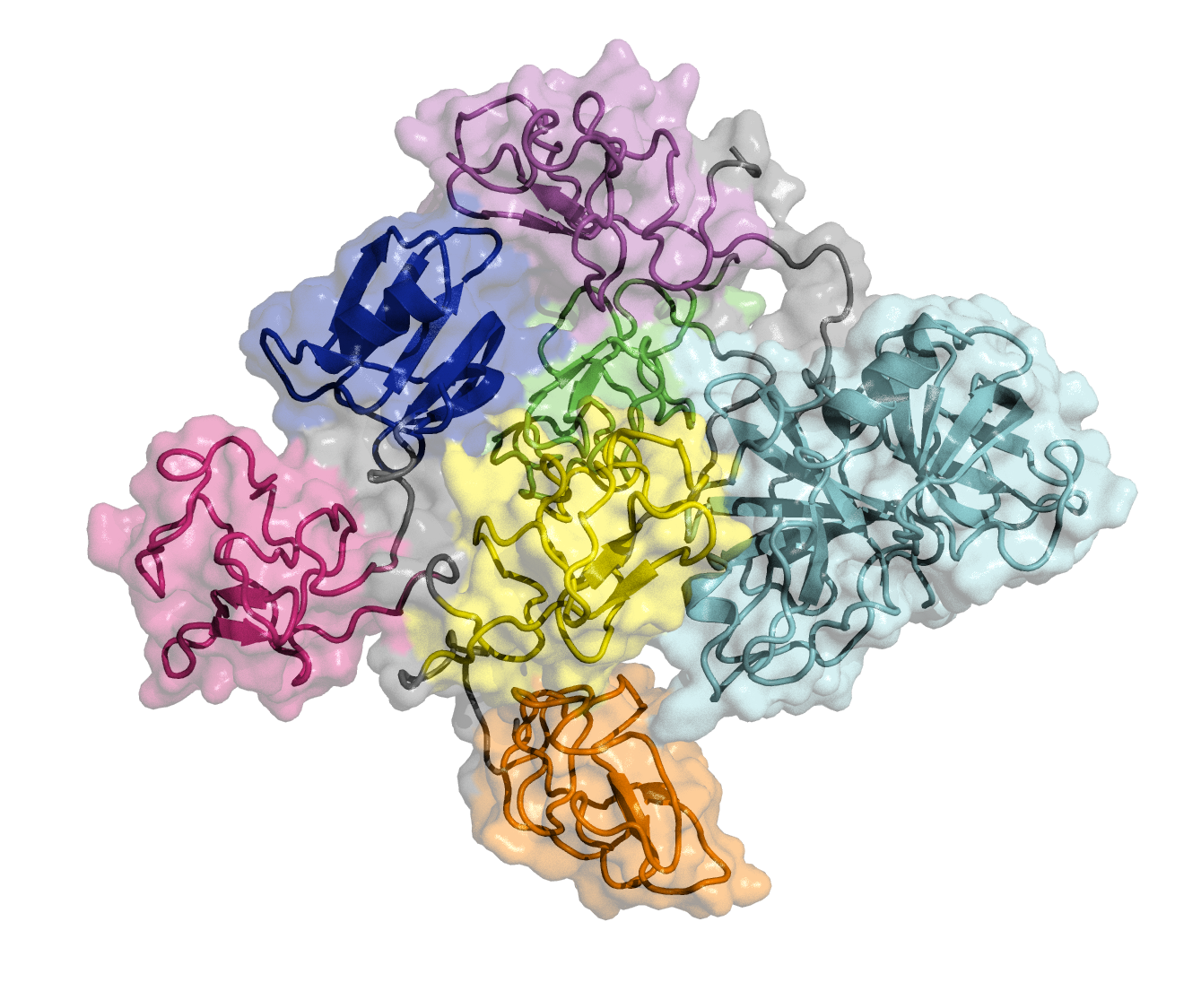 The X-ray crystal structure of full length plasminogen